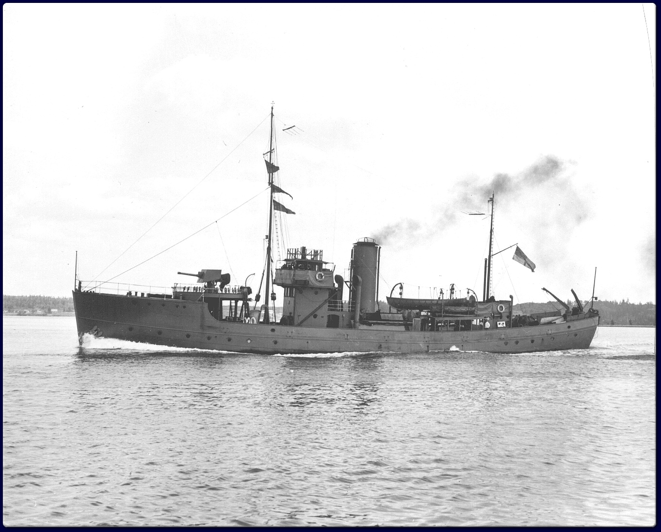 Photograph of Canadian Fundy class minesweeper HMCS Nootka (J35) (renamed HMCS Nanoose in 1943).